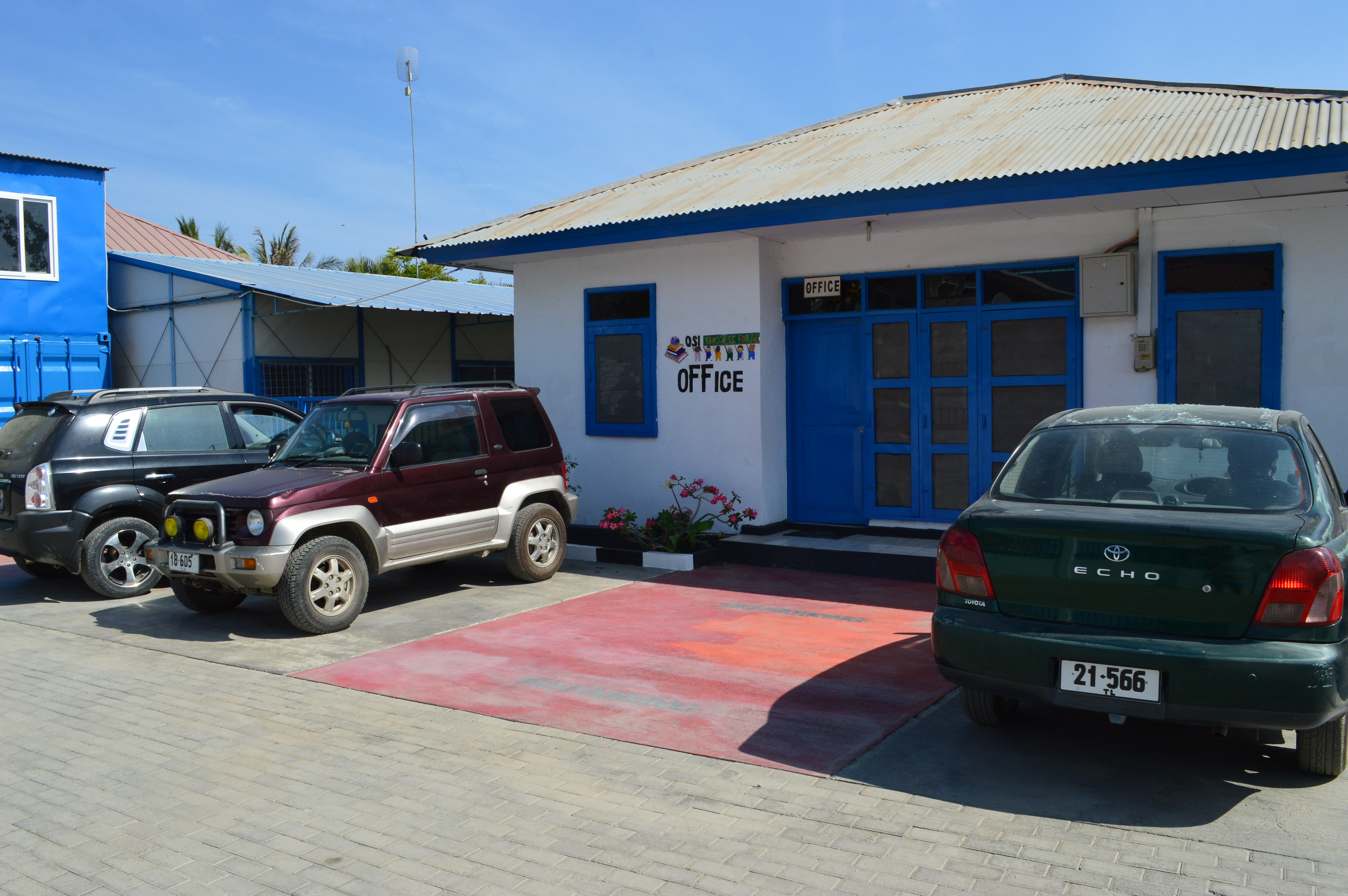 Picture of the front of the QSI Dili school